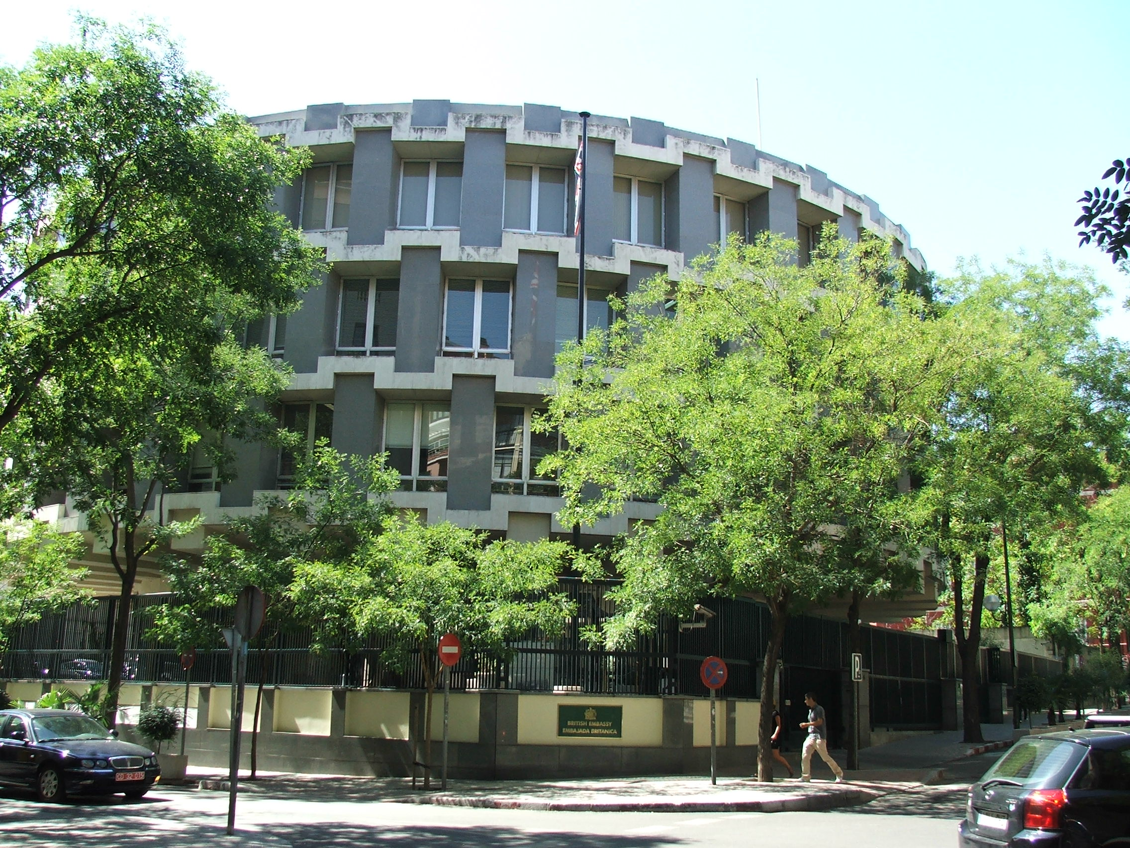 Former Embassy of the United Kingdom in Madrid - Spain. The British Embassy Madrid moved to new premises in the Torre Espacio in 2009.